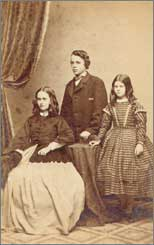 Photograph of Una, Julian, and Rose, Nathaniel Hawthorne's children